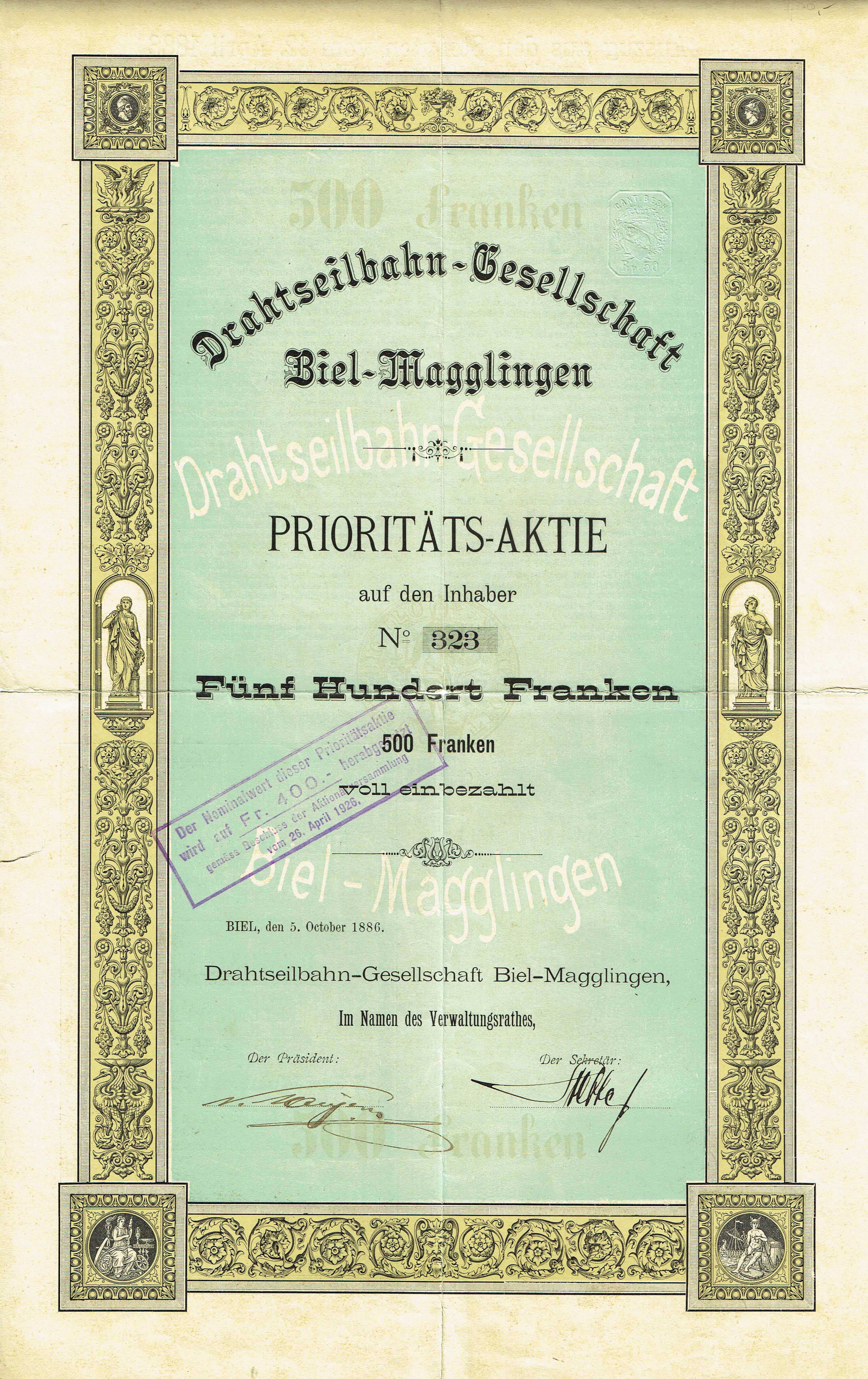 500-franc stock share for the Biel–Magglingen Funicular (Drahtseilbahn-Gesellschaft Biel-Magglingen), one of 700 issued on 5 October 1886.